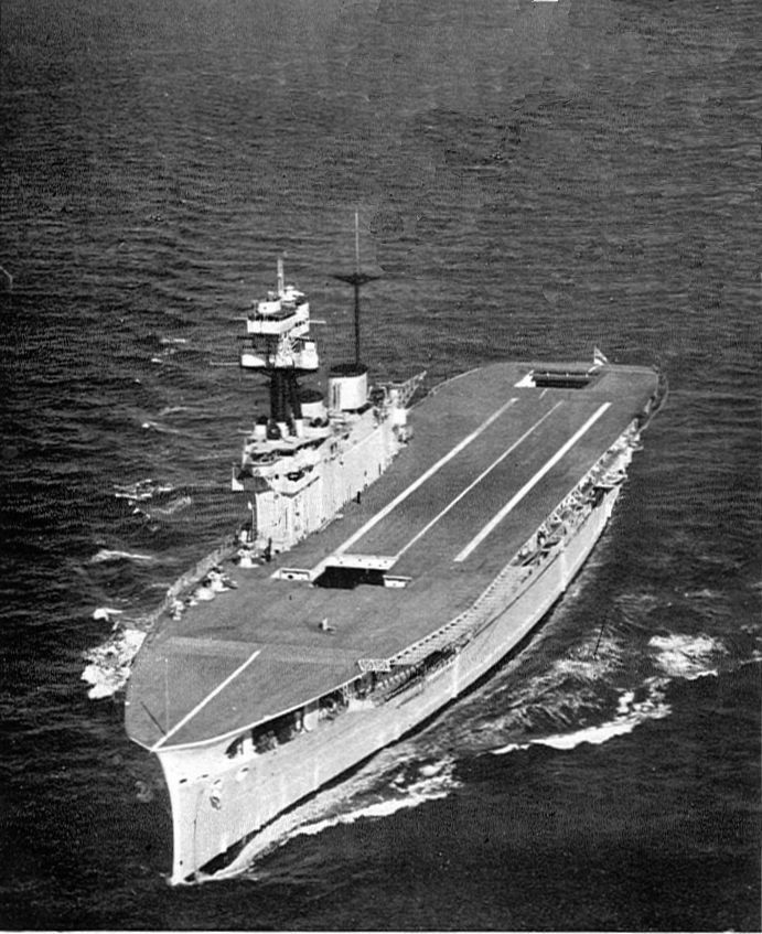 British Aircraft Carriers. HMS Eagle Photo: Charles E. Brown